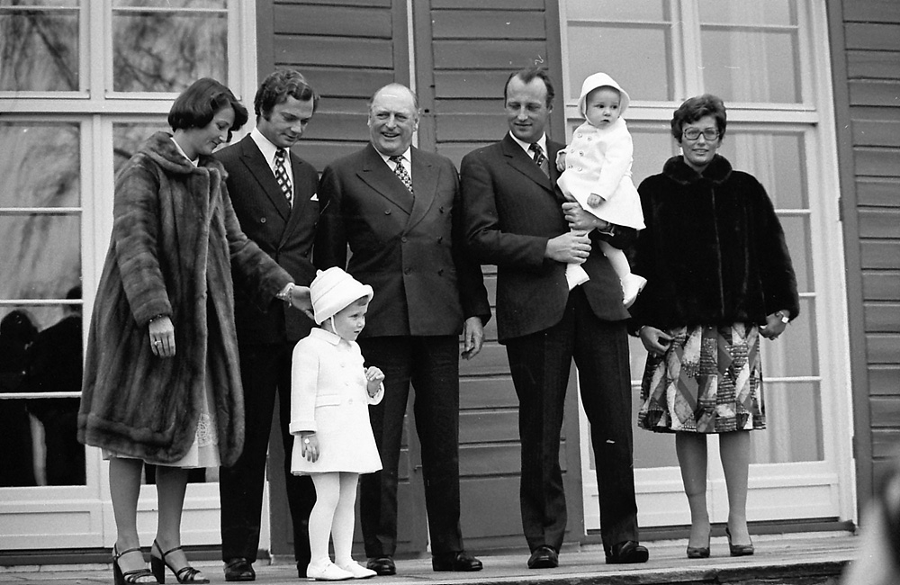 Beskrivelse: Skaugum 10. oktober 1974. Kronprinsesse Sonja, kong Carl Gustav, prinsesse Märtha Louise, kong Olav, kronprins Harald, prins Haakon Magnus og prinsesse Astrid fru Ferner. Fotograf: Billedbladet NÅ/Arne Wisth. Arkivreferanse: RIKSARKIVET- PA797_7868. The Royal Family, Skaugum October 10th, 1974 Description: Skaugum October 10th 1974. Crown Princess Sonja, King Carl Gustav of Sweden, Princess Märtha Louise, King Olav, Crown Prince Harald, Prince Haakon Magnus and Princess Astrid mrs Ferner. Photo: Billedbladet NÅ/Arne Wisth. Archival reference: PA797_7868